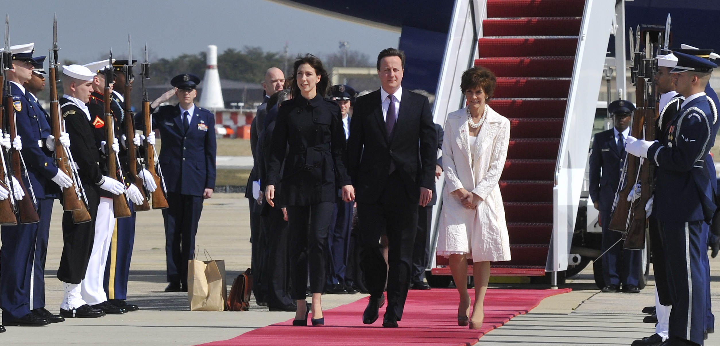 David Cameron, Samantha Cameron and Capricia Marshall, Chief of Protocol for the Department of State, walk down the red carpet at the Flight Line Arrival at Joint Base Andrews during an official visit in March 2012.